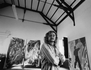 Heinz te Laake